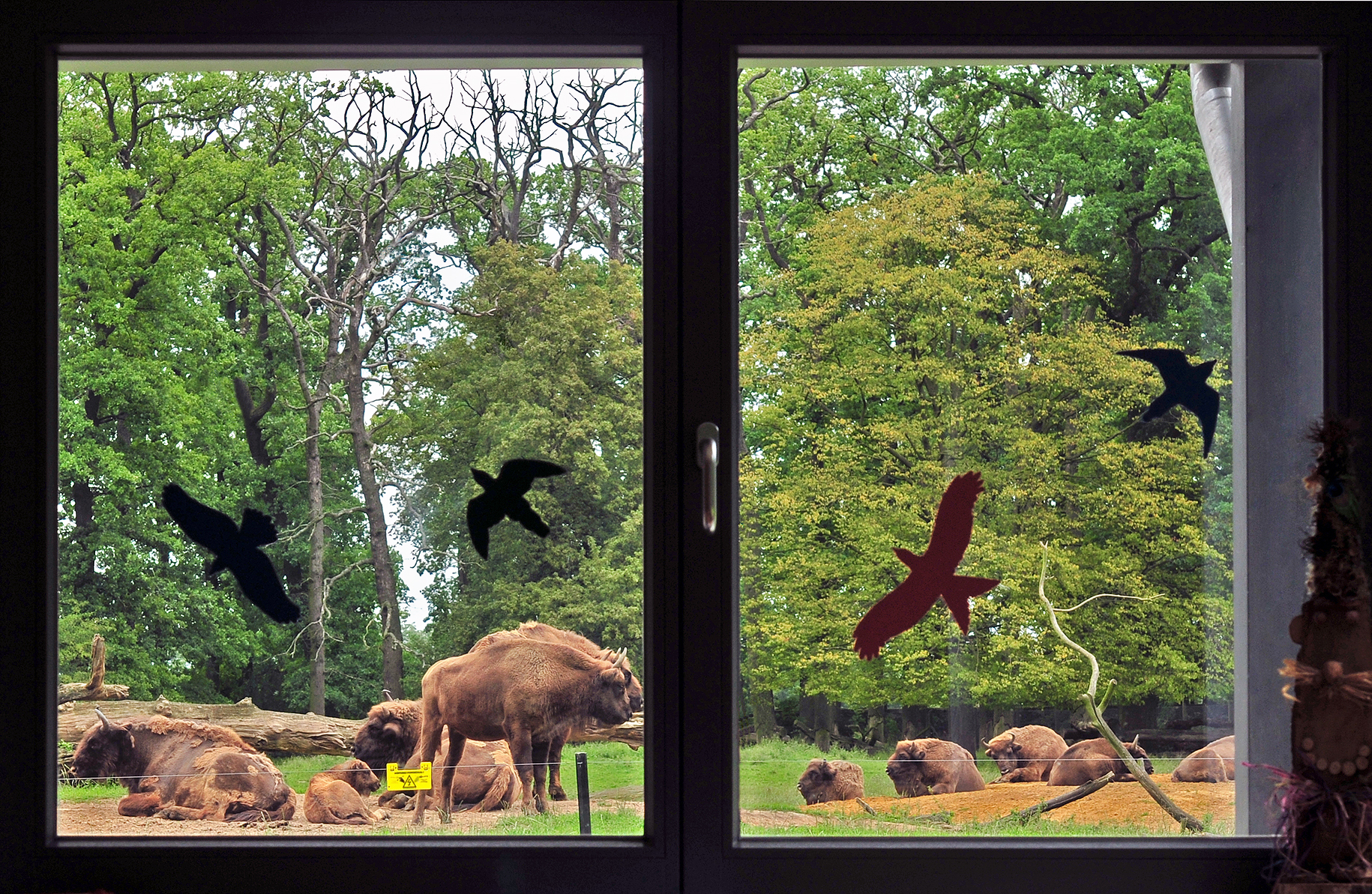 Window by the "Heinz-Sielmann-Haus" in the Wisentgehege Springe game park near Springe, Hanover, Germany